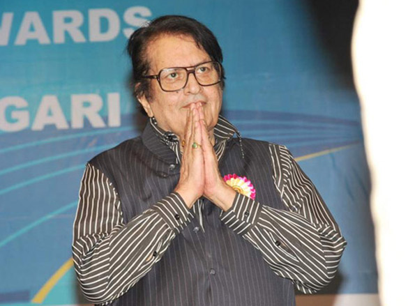 Manoj Kumar at the Dada Saheb Phalke Academy Awards, 2010